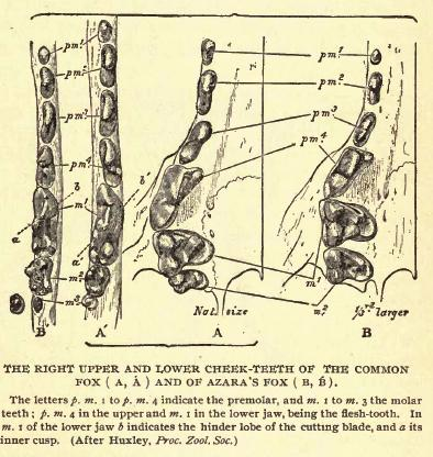 Comparative illustration of red fox and pampas fox dentition